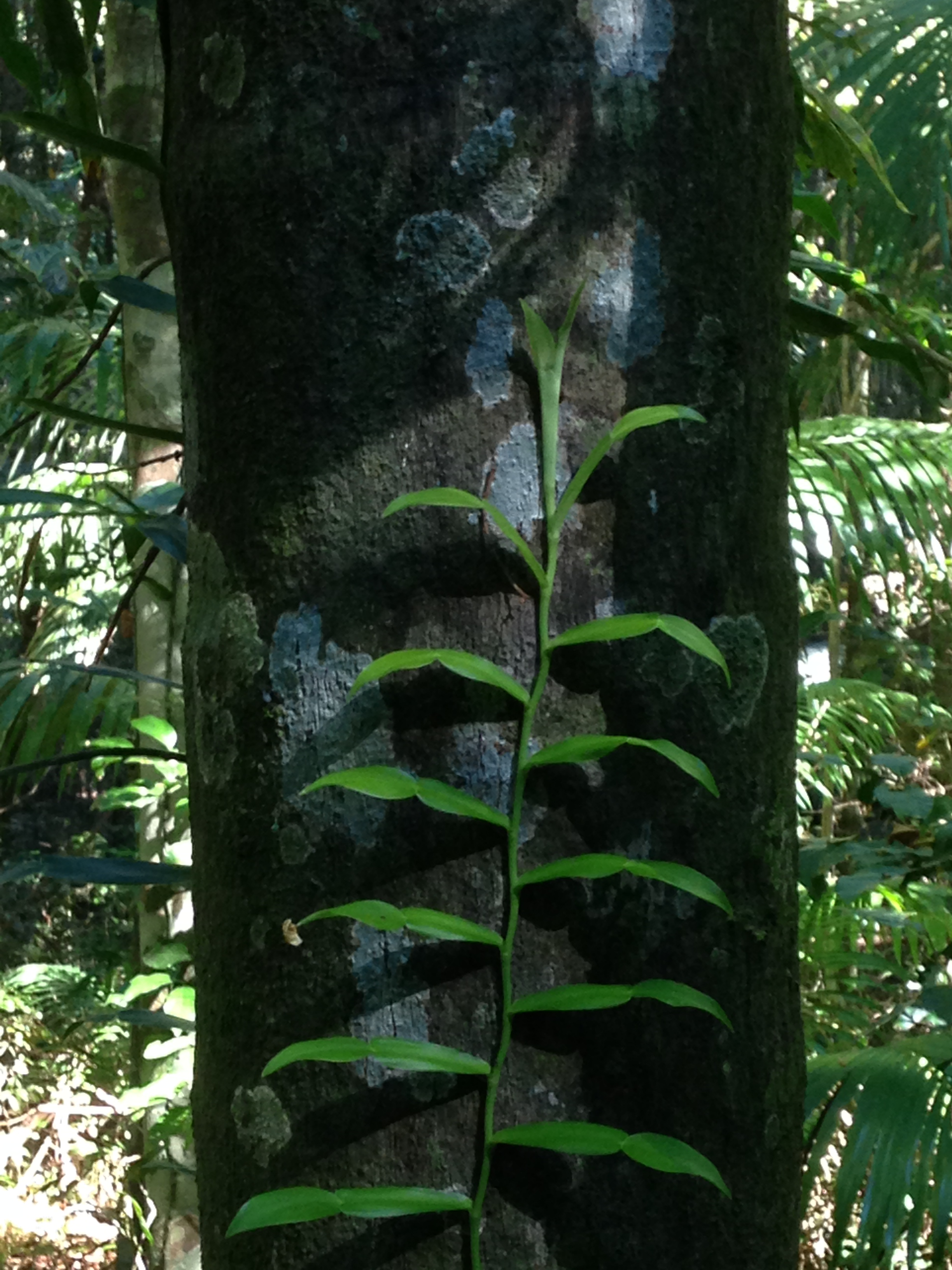 A climbing plant Pothos brownii on a tree trunk on the rainforest discovery track at Eungella National Park